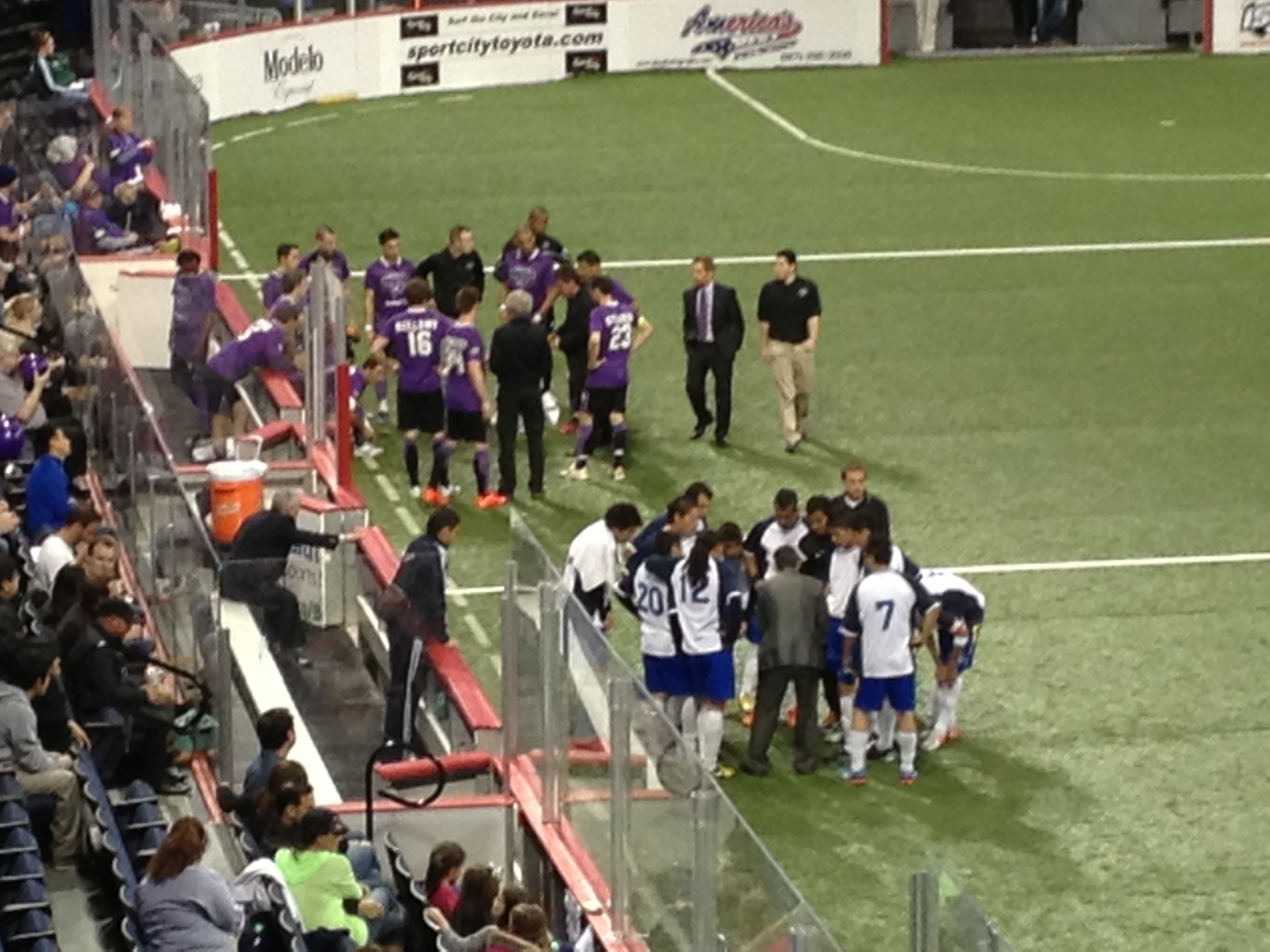 Indoor soccer teams conferring during the February 28, 2013, Professional Arena Soccer League playoff match between the Dallas Sidekicks and the Rio Grande Valley Flash at the Allen Event Center in Allen, Texas.